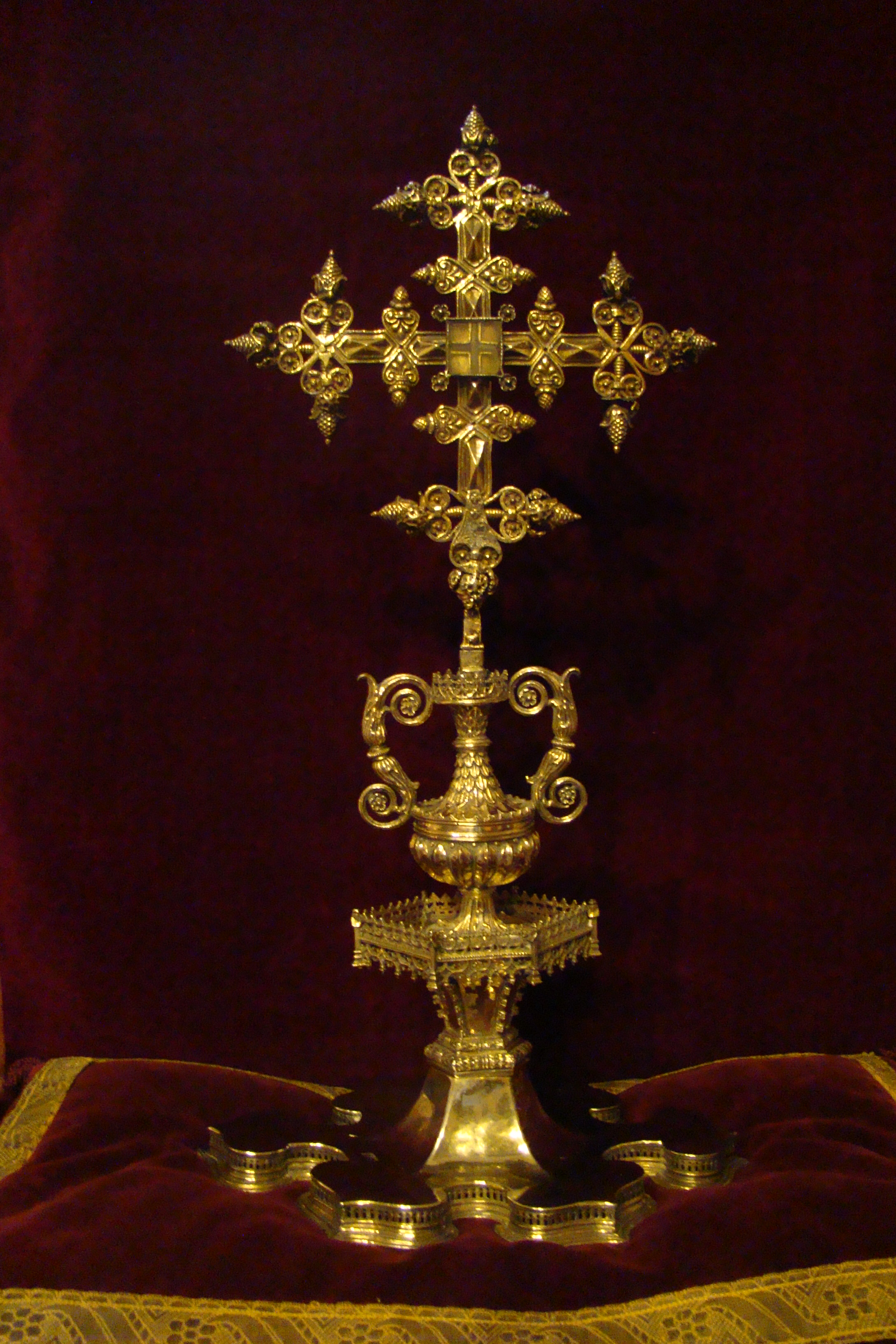 Staurothec of the True Cross, 15th century. Museum and treasure, Basilica St. Maria del Pi, Barcelona